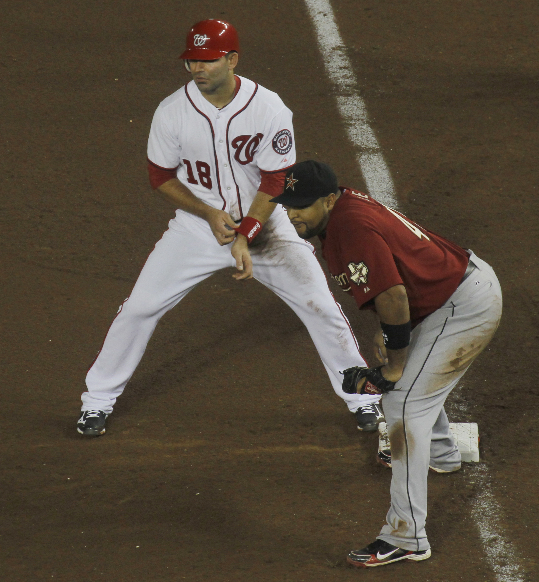 Danny Espinosa (left) and Carlos Lee